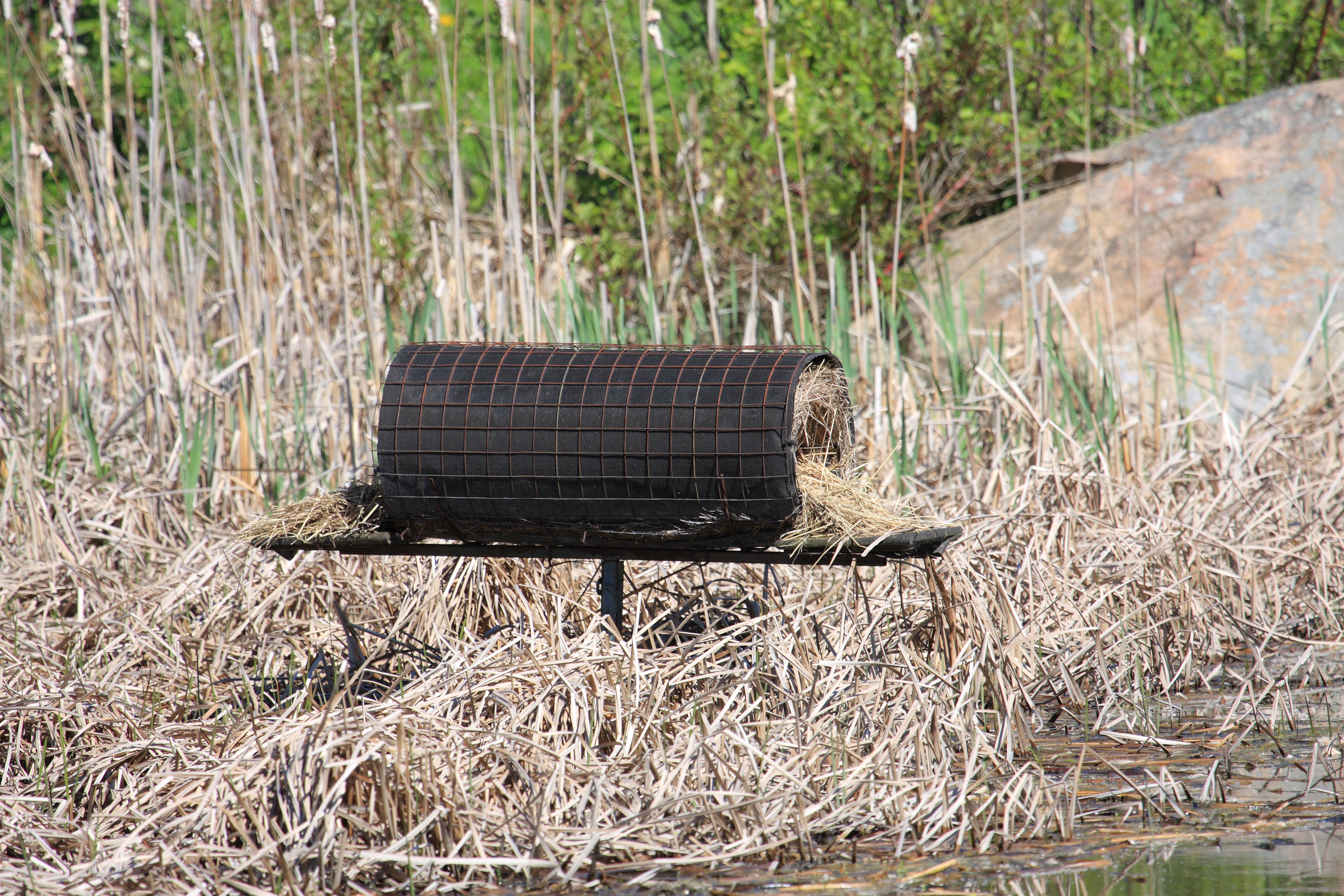 Tunnel nest for ducks, Cap Tourmente National Wildlife Area, Quebec, Canada.